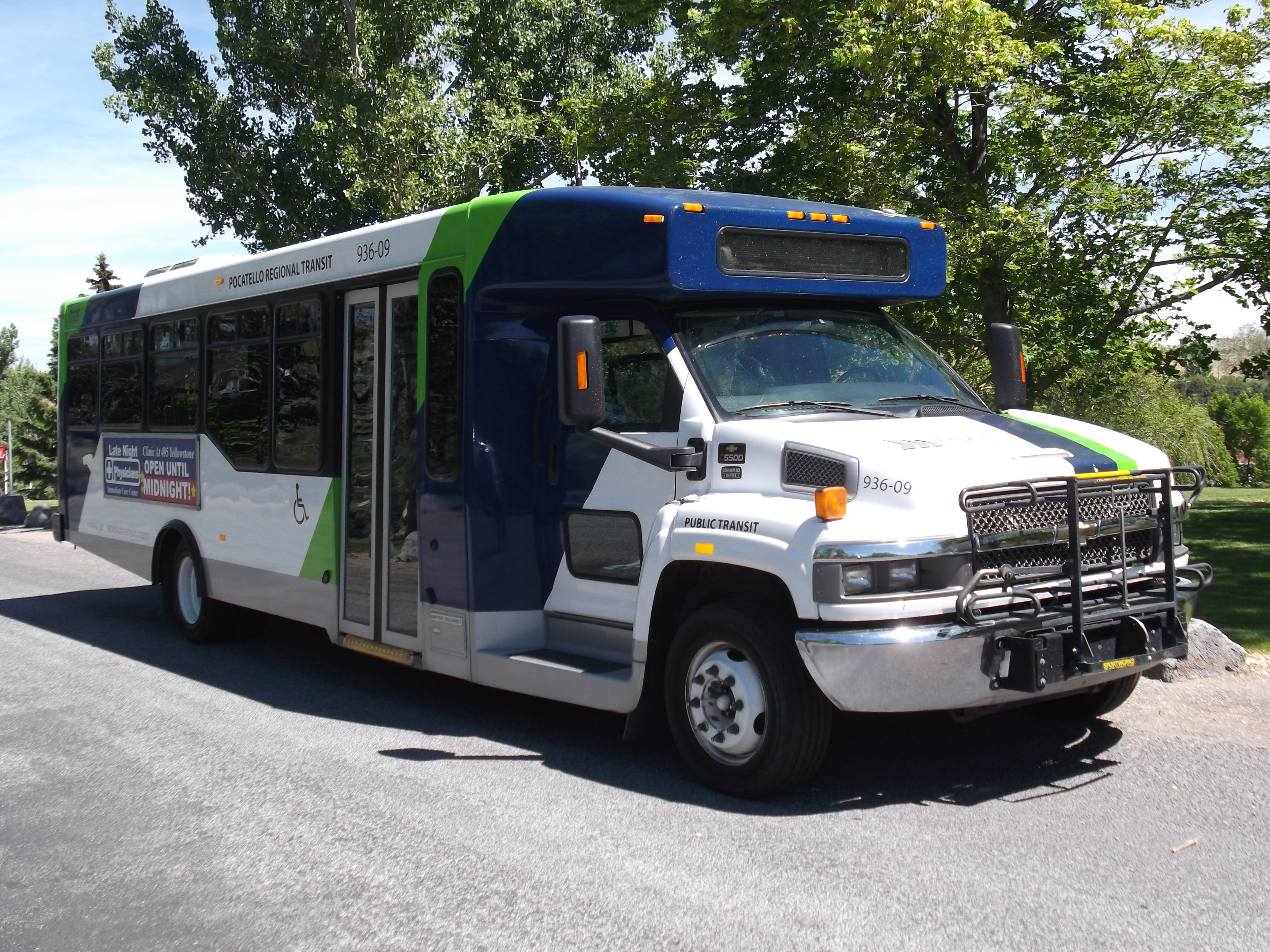 Pocatello Regional Transit "Bus 936"